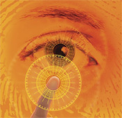 Fingerprint and retinal scan graphic